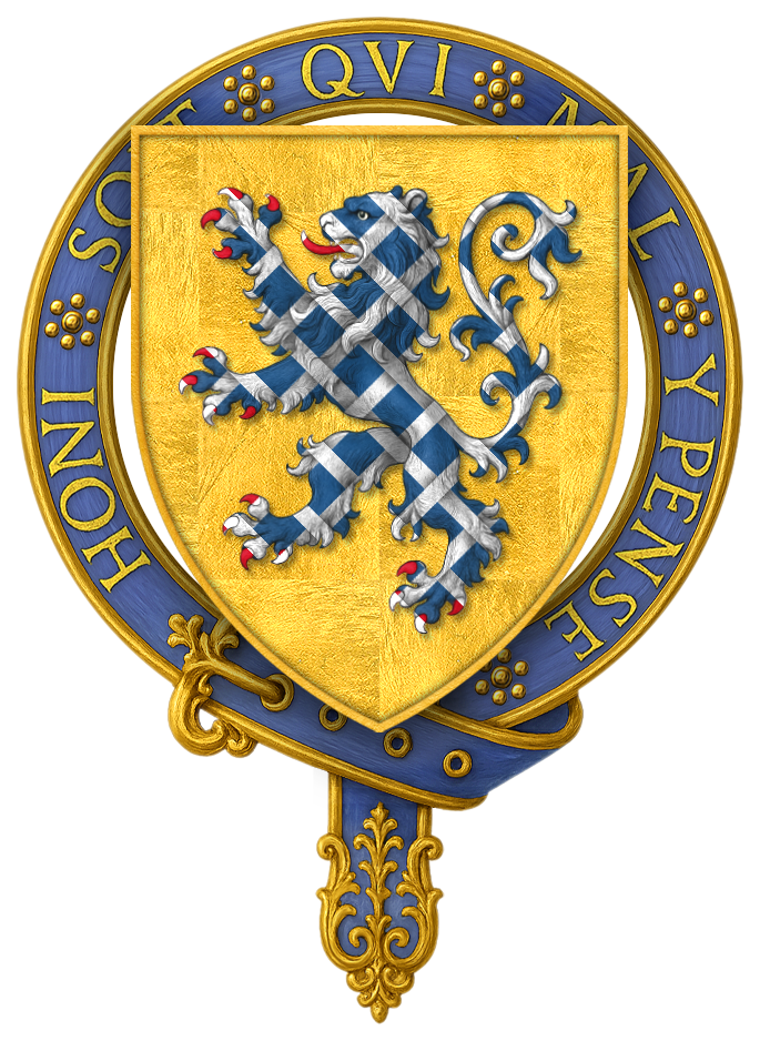 Coat of Arms of Sir Alan Buxhull, KG “Sir Alan Buxhull… Arms: Or, a lion rampant Azure, fretty Argent.” BELTZ, George Frederick, Memorials of the Order of the Garter from Its Foundation to the Present Time, London: William Pickering, 1841.